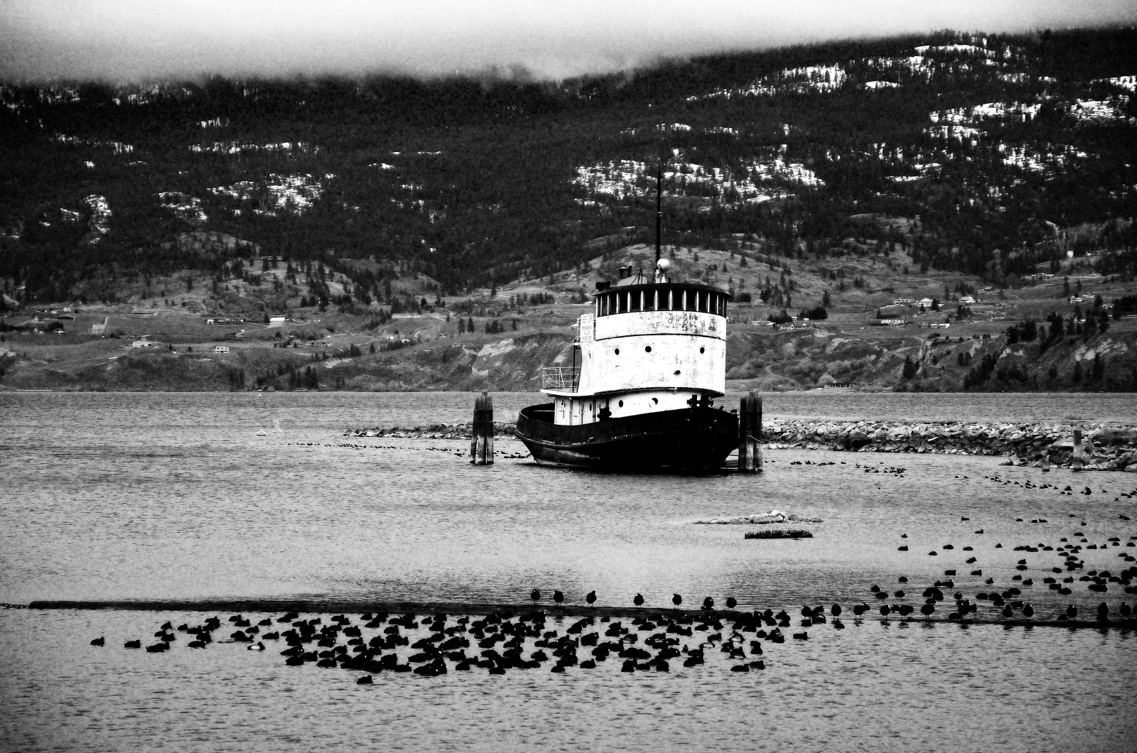 The following is the author's description of the photograph quoted directly from the photograph's Flickr page."I ran this through that infrared filter I used to like. Looks like they've changed it, doesn't look at all like it used to... "